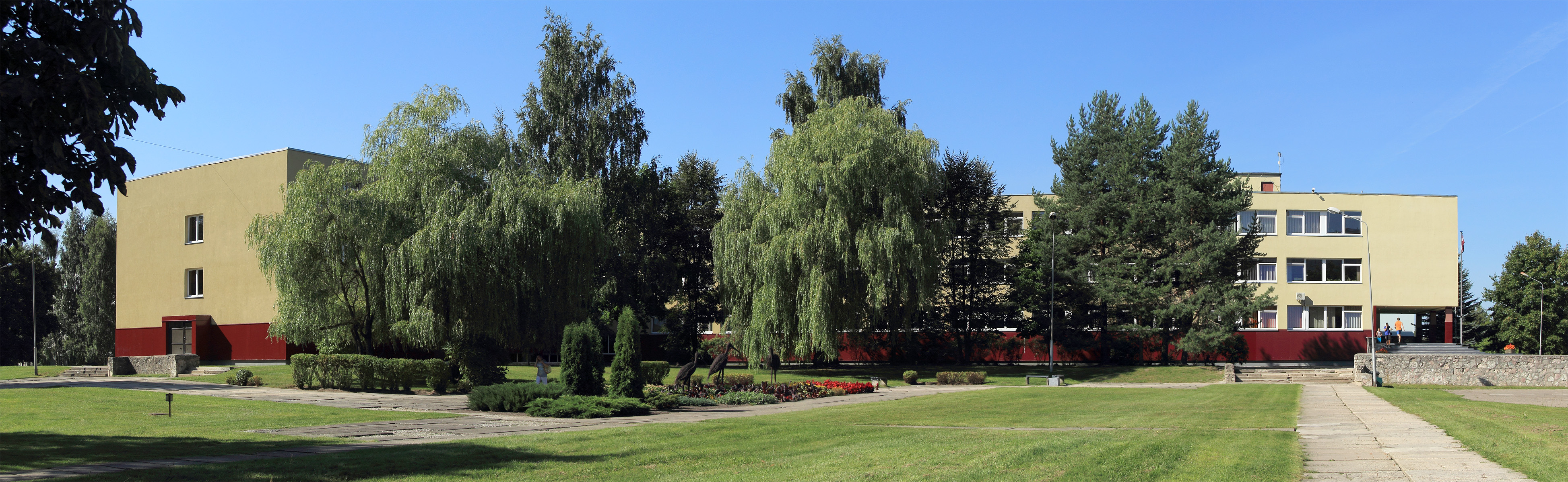 Jelgava Secondary School №6Latviešu: Jelgavas 6. vidusskola